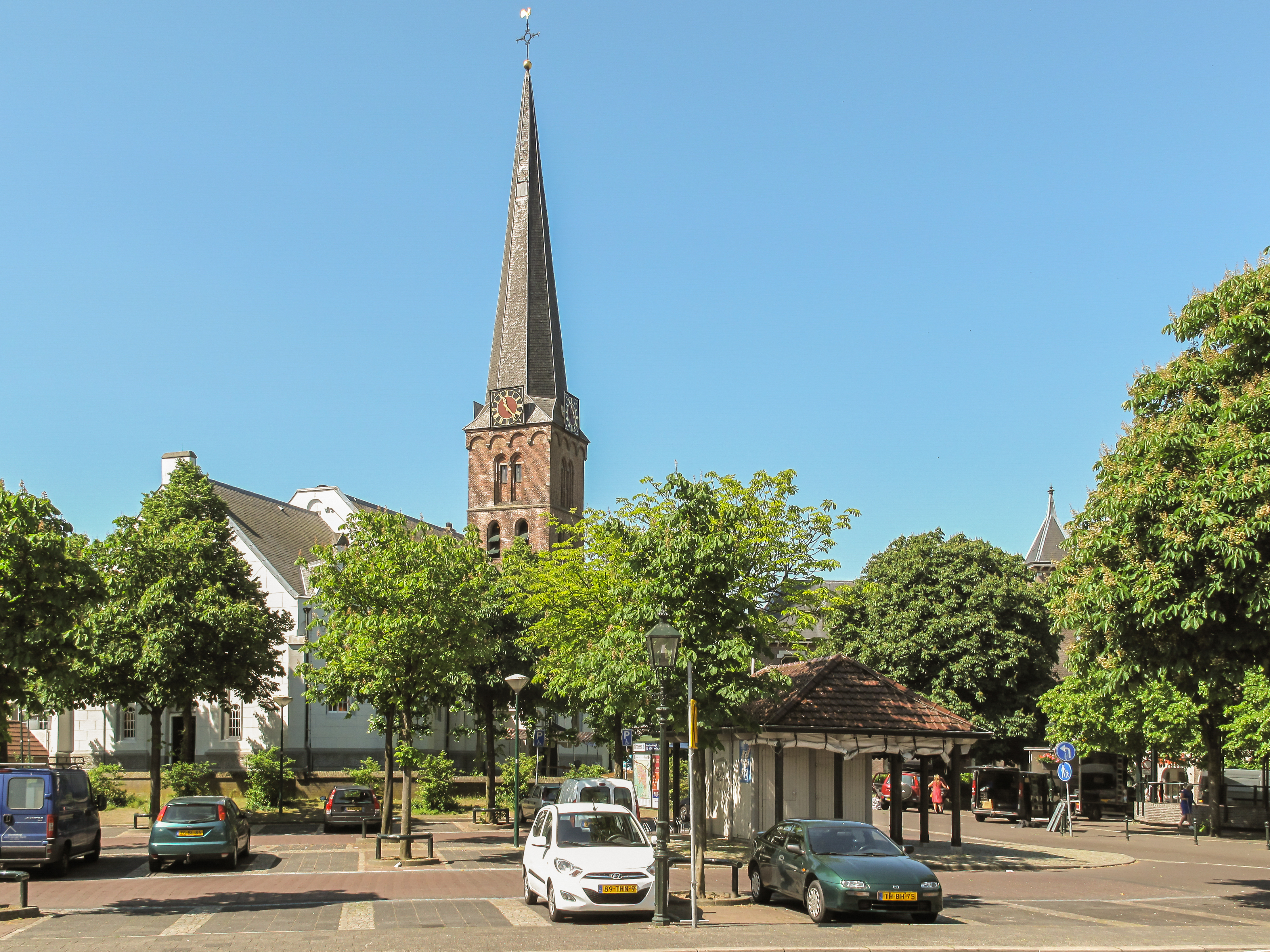 Baarn, church: de Pauluskerk RM8537